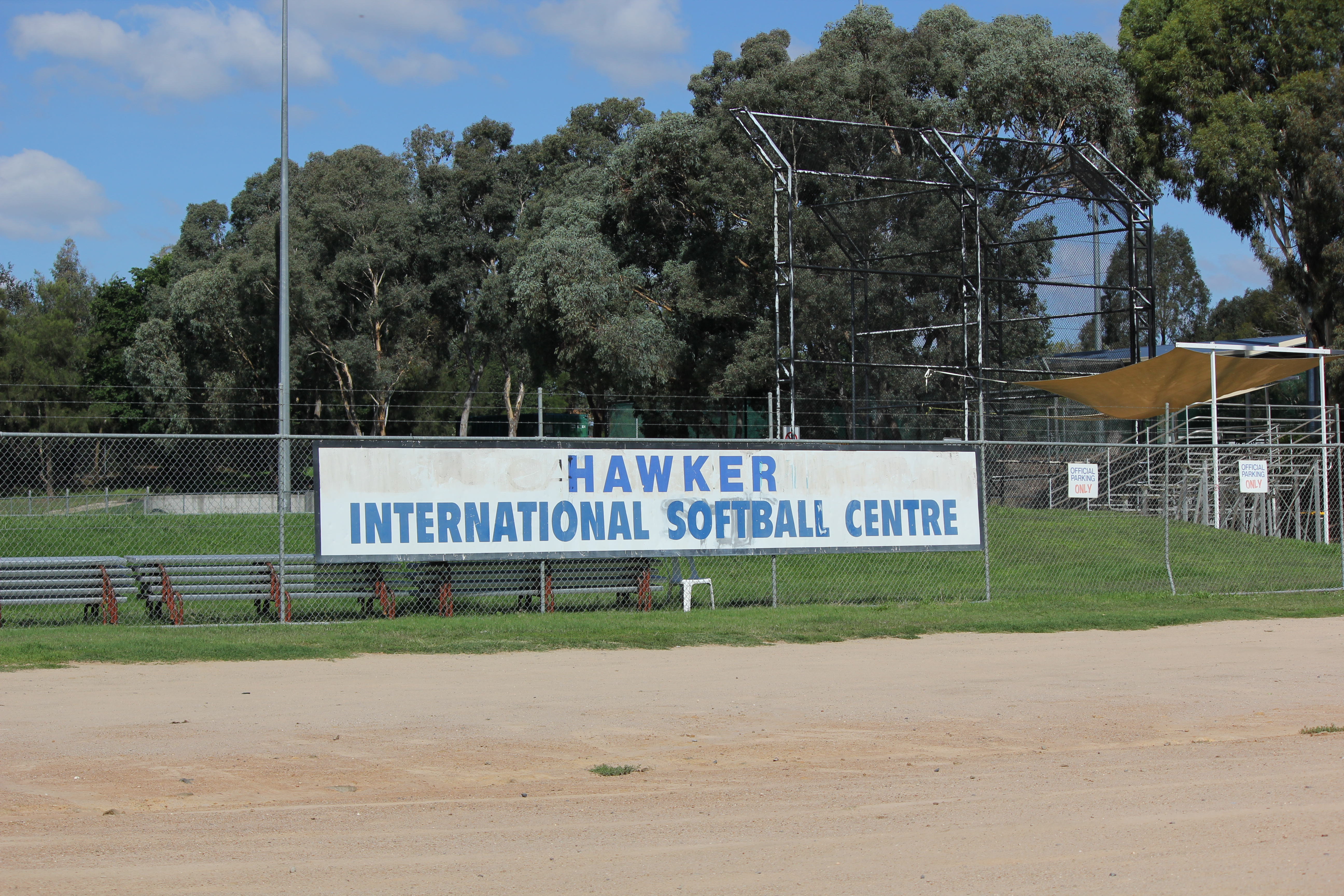 Turner International Softball Centre in Turner, Australian Capital Territory.